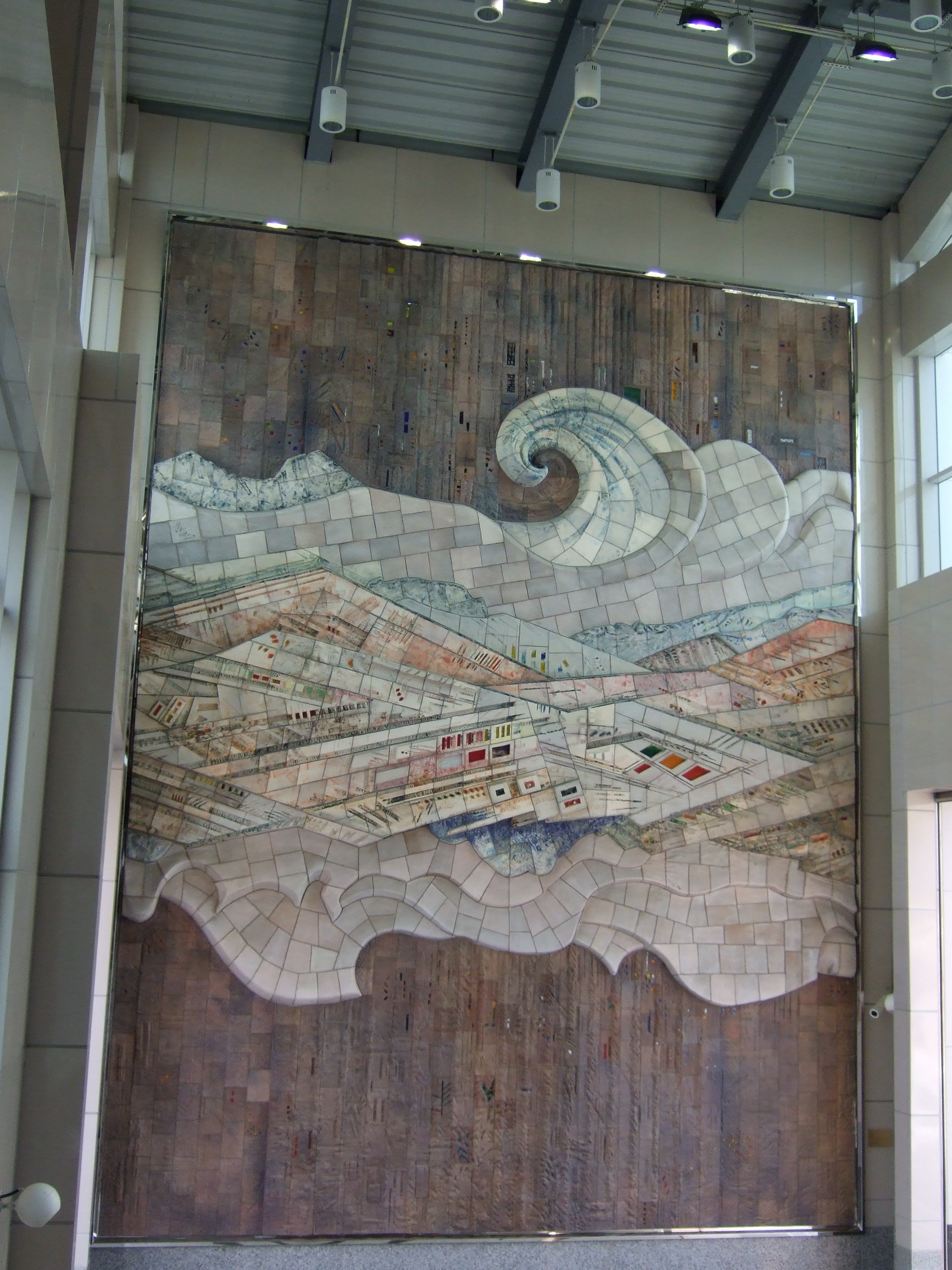 Public Art artwork in Ciaotou Station: Divine Labor Leads the Industrilization.